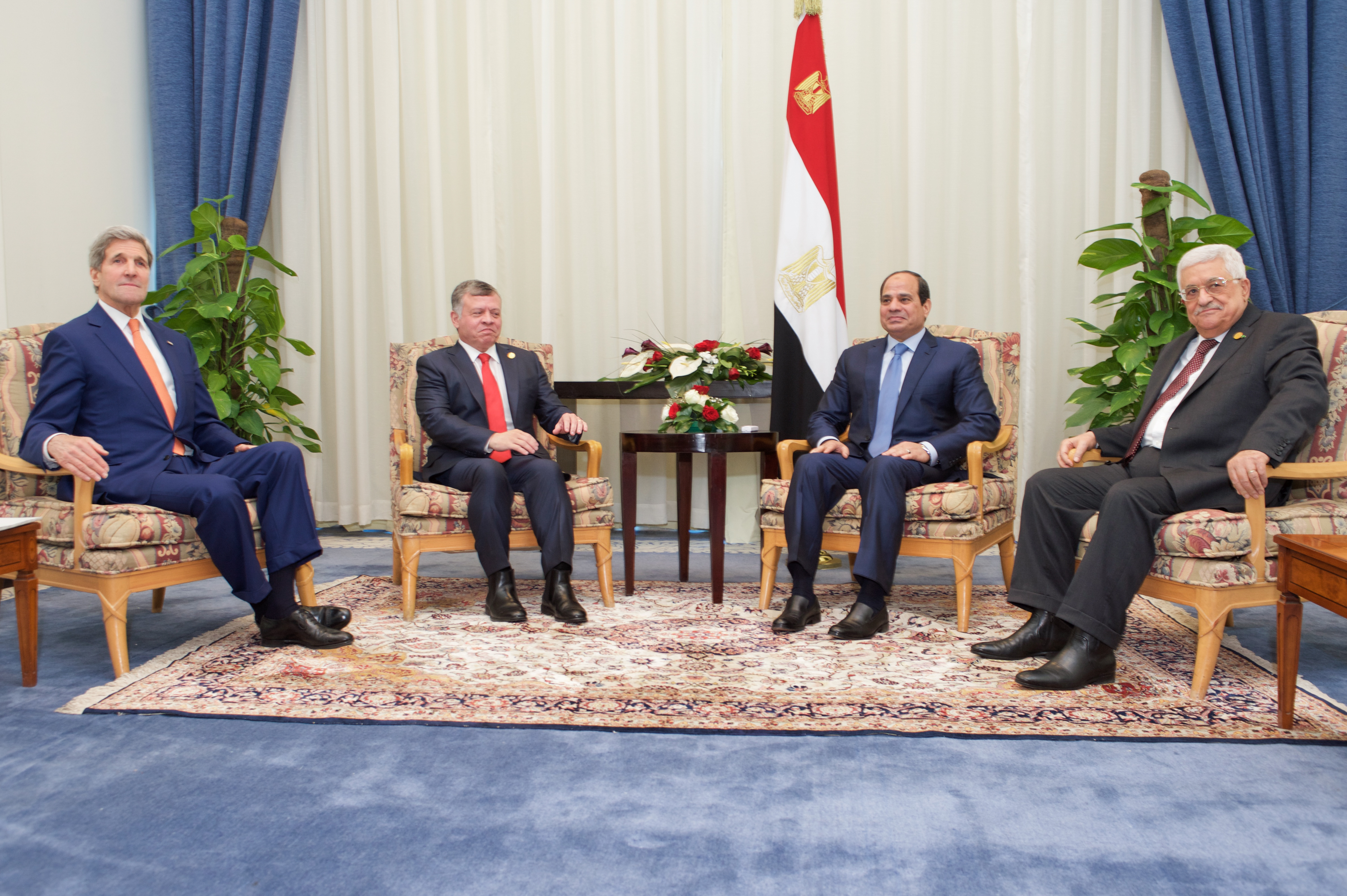 U.S. Secretary of State John Kerry, King Abdullah II of Jordan, Egyptian President Abdel Fattah al-Sisi, and Palestinian Authority President Mahmoud Abbas sit together at the Congress Center in Sharm el-Sheikh, Egypt, on March 13, 2015, before a quadrilateral meeting and their attendance at an Egyptian development conference. [State Department Photo/Public Domain]